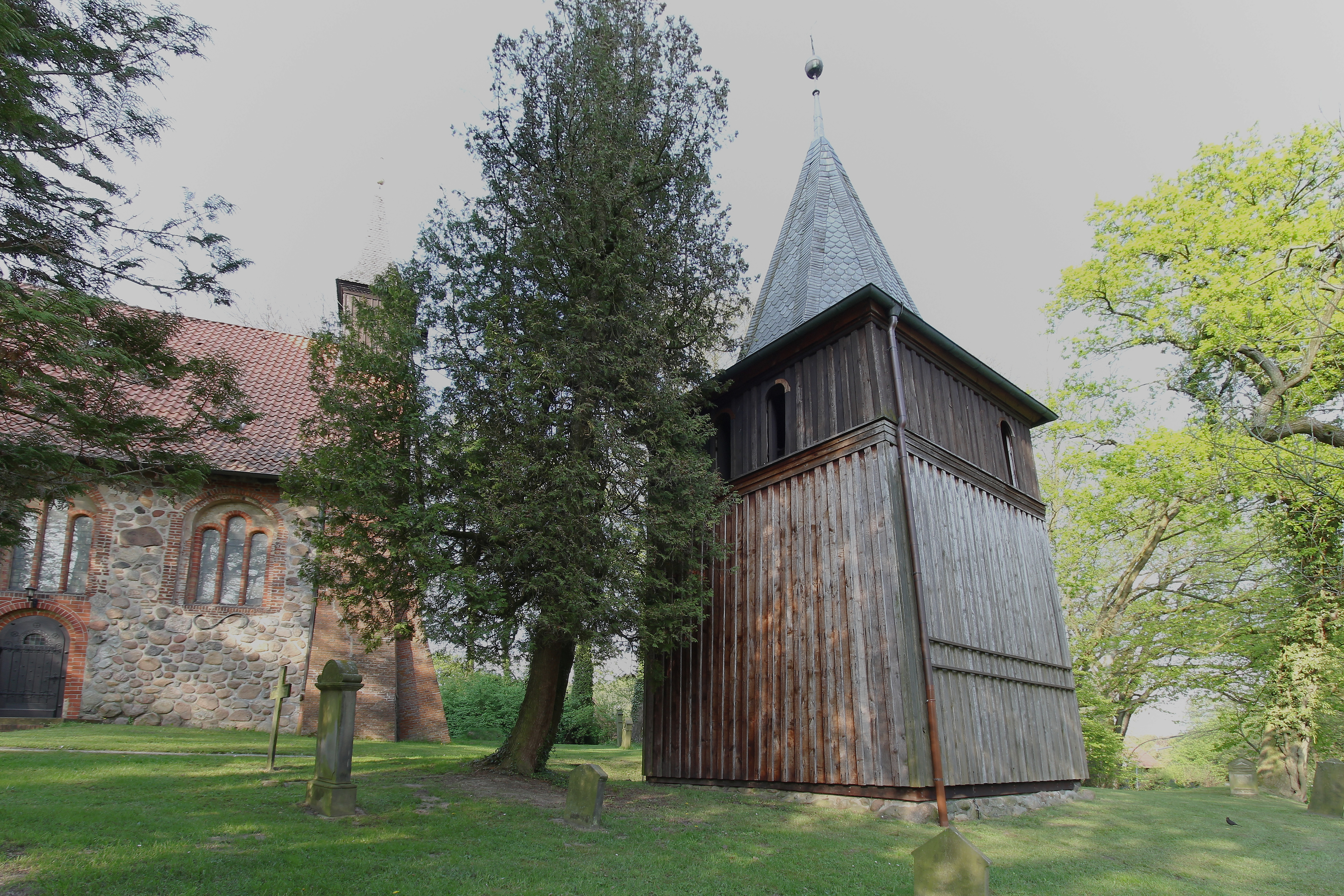 Church in Hamburg-Sinstorf